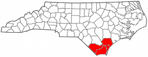 Locator map of Region O of the North Carolina Councils of Governments.